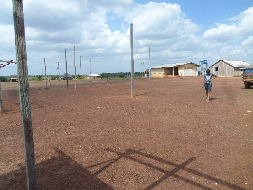 Indigenous Village São Domingos